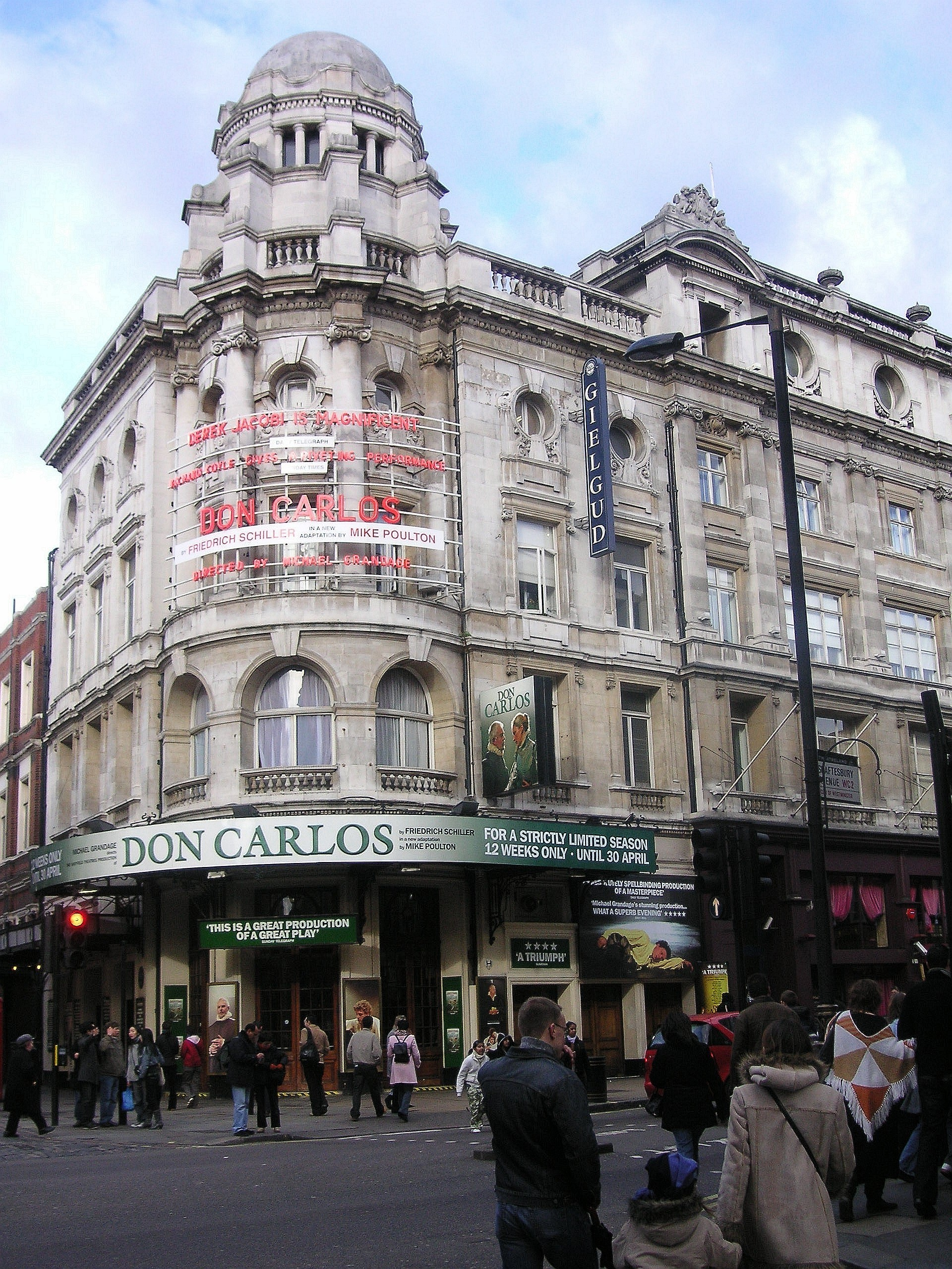 Gielgud Theatre, London, showing Don Carlos